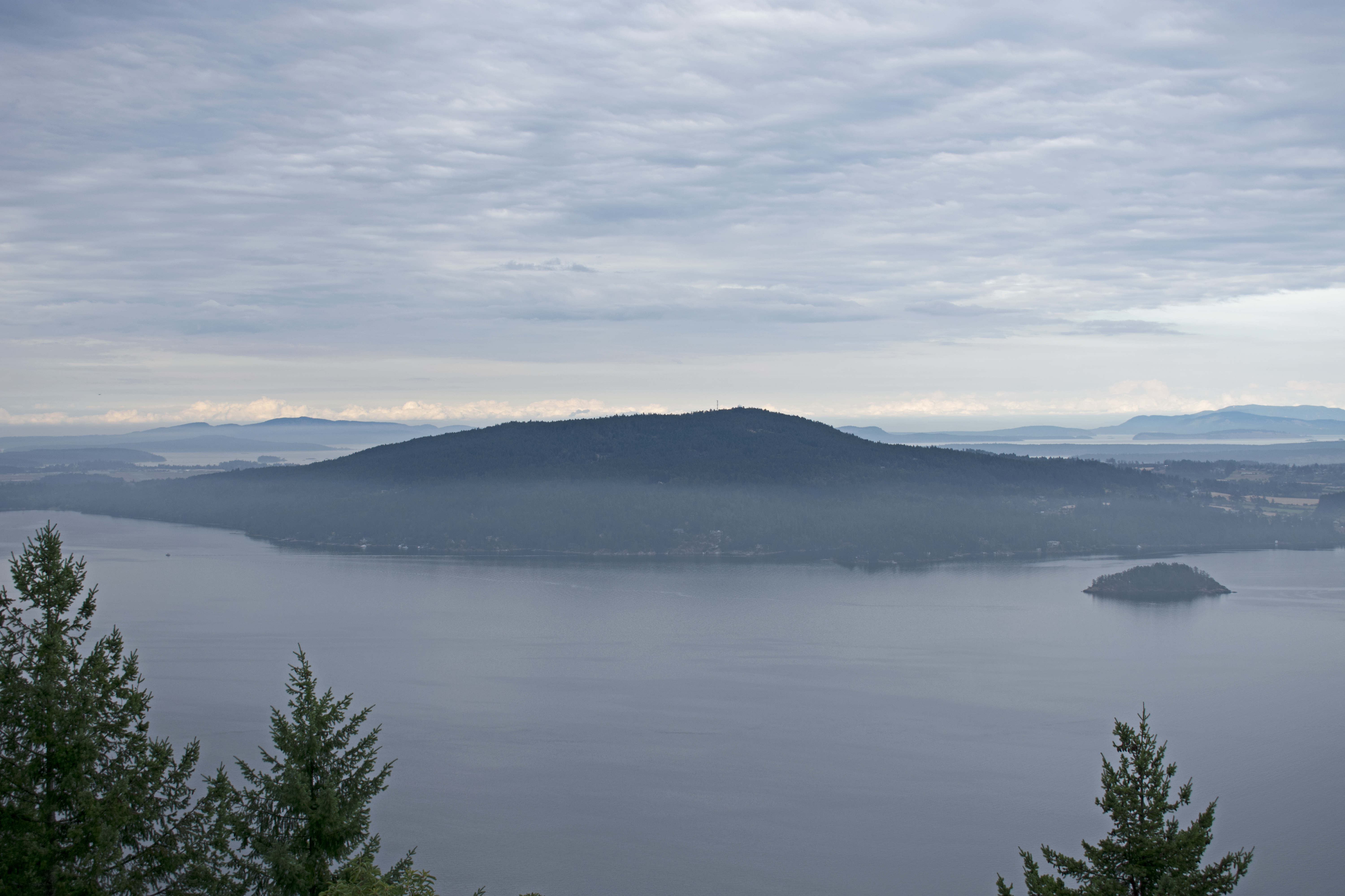 View from Malahat lookout: Mount Newton is behind Saanich Inlet